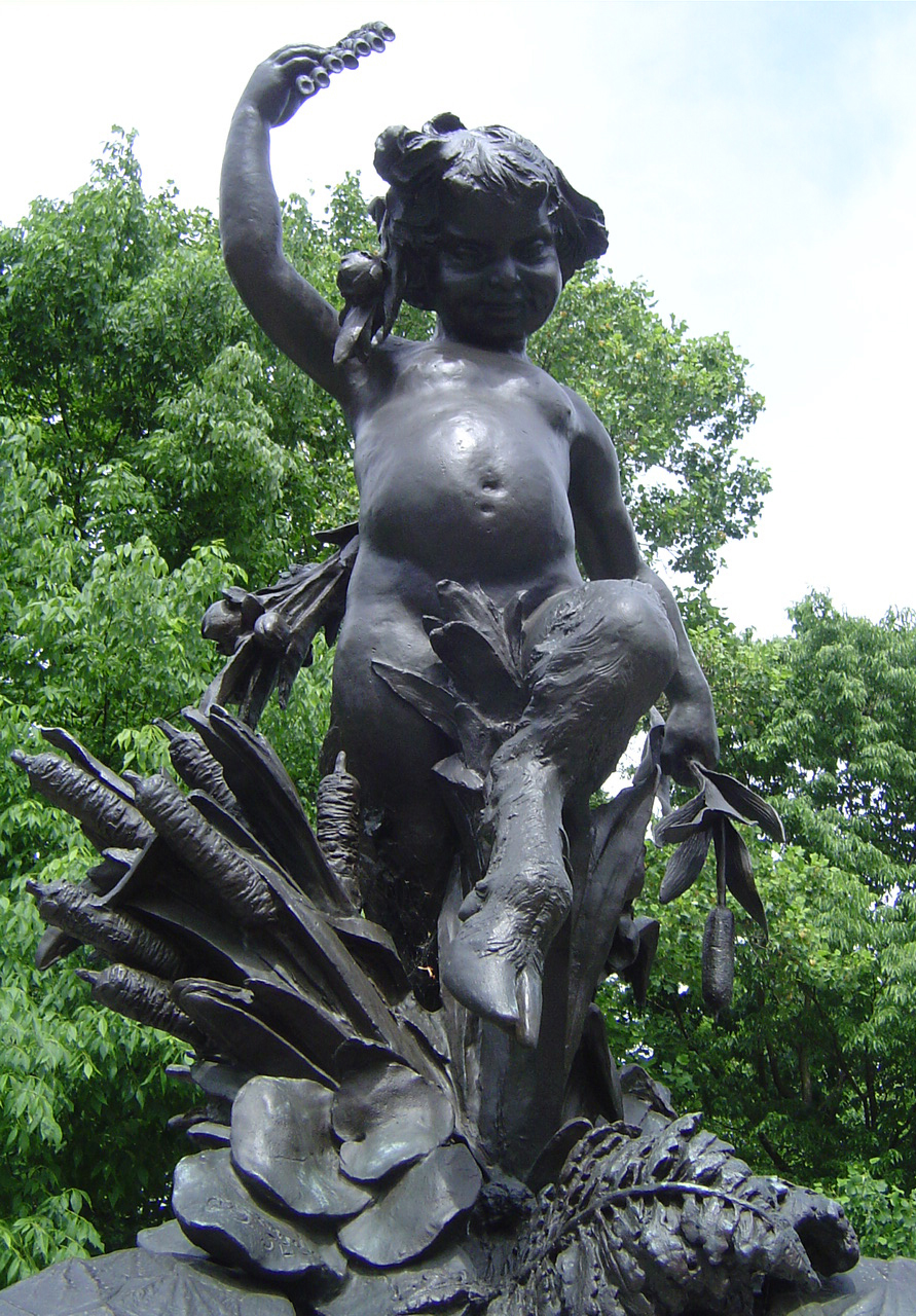 Pan, detail of Hogan's Fountain by Enid Yandell in Cherokee Park, Louisville, Kentucky. Cherokee Park was designed by Frederick Law Olmsted in 1887. Photo by User:Alan Canon especially for Wikipedia.